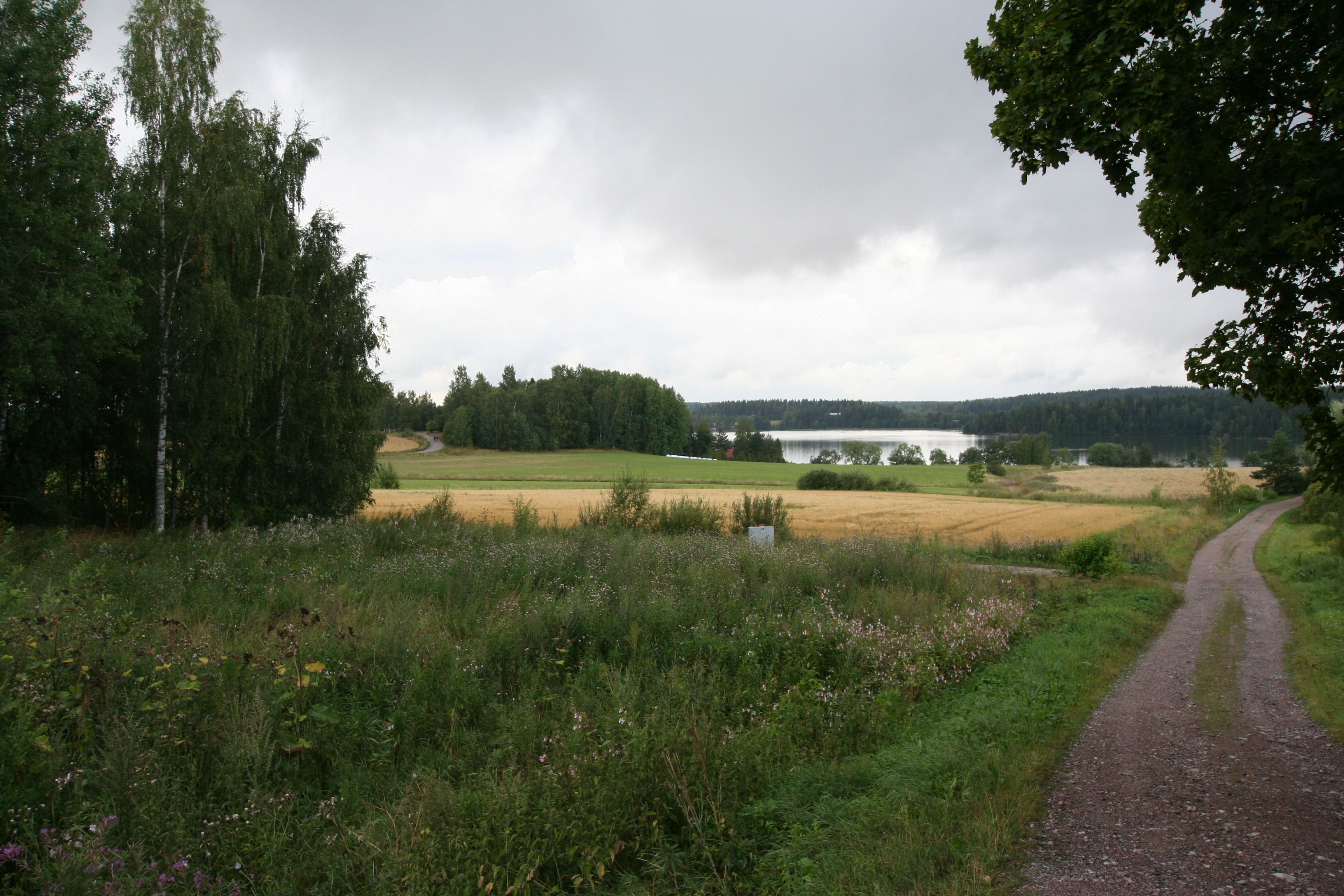 View in Mallusjoki village to Lake Mallusjärvi, Orimattila, Finland